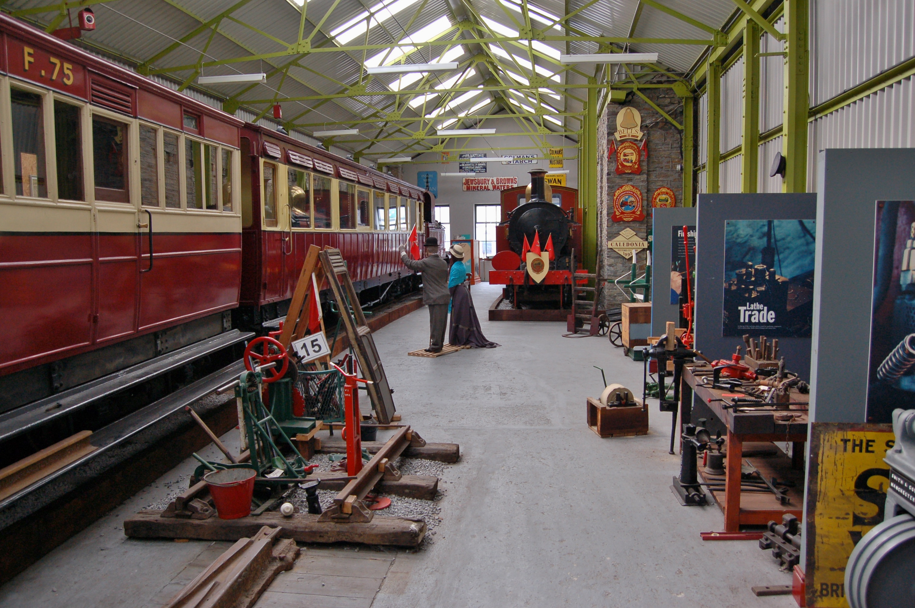 A general view of the Isle of Man Railway's Port Erin Railway Museum, Port Erin, Isle of Man: (L-R) No. 6 Peveril (only just visible) with a train of coaches, No. 16 Mannin.